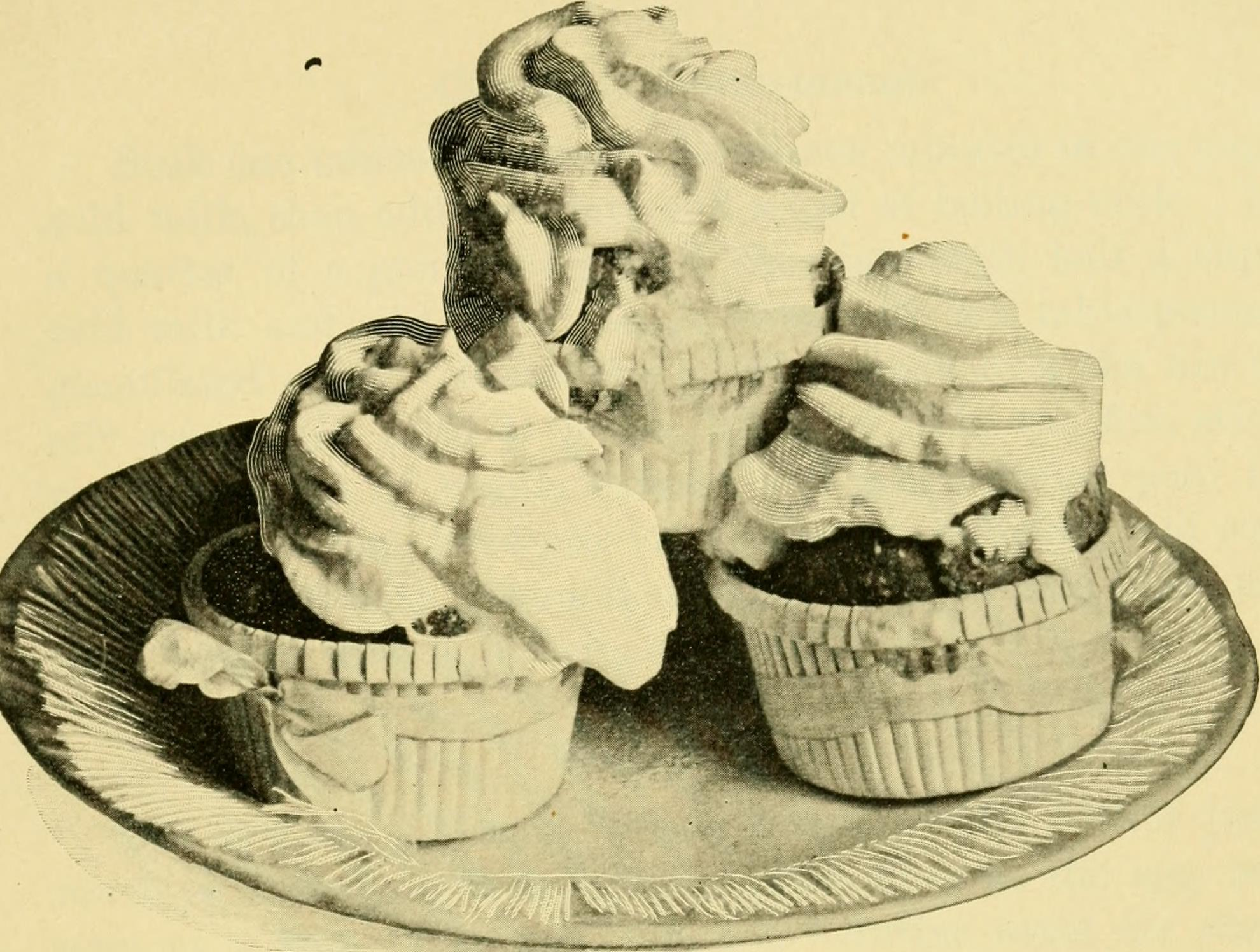 Charlotte russe. Title: Mrs. Seely's cook book; a manual of French and American cookery, with chapters on domestic servants, their rights and duties and many other details of household management Year: 1902 (1900s) Authors: Seely, Lida, 1854-1928 Subjects: Cookery, American Domestics cbk Publisher: New York : Macmillan Co. Text Appearing Before Image: set it away until it is slightly thick, and mix itwith a pint and a half of whipped cream. Pour into the char-lotte mould, cover the top with paper, and set on the ice for anhour or more. When ready to serve, invert on a dish. Havea cover for the top made of the ladys finger pastry, decorate itwith icing, and, if desired, candied cherries, etc. Charlotte RusseDissolve a fourth of a package, or two teaspoons, of gelatinein a fourth of a cup of cold water, and add it to half a pint ofmilk heated and three-quarters of a cup of sugar. Whip halfa pint of rich cream, add to the gelatine and sugar, and stir inlater the beaten whites of the eggs. Flavor with vanilla. Charlotte a la Parisienne Cut horizontally, in half-inch slices, a sponge cake, andcover each slice with a different kind of preserve. Pile theslices in their original form, and spread over the whole cake astiff icing. One kind of preserve, instead of several, may beused for this charlotte, and pound cake instead of sponge cake. Text Appearing After Image: CHARLOTTE KUSSE.